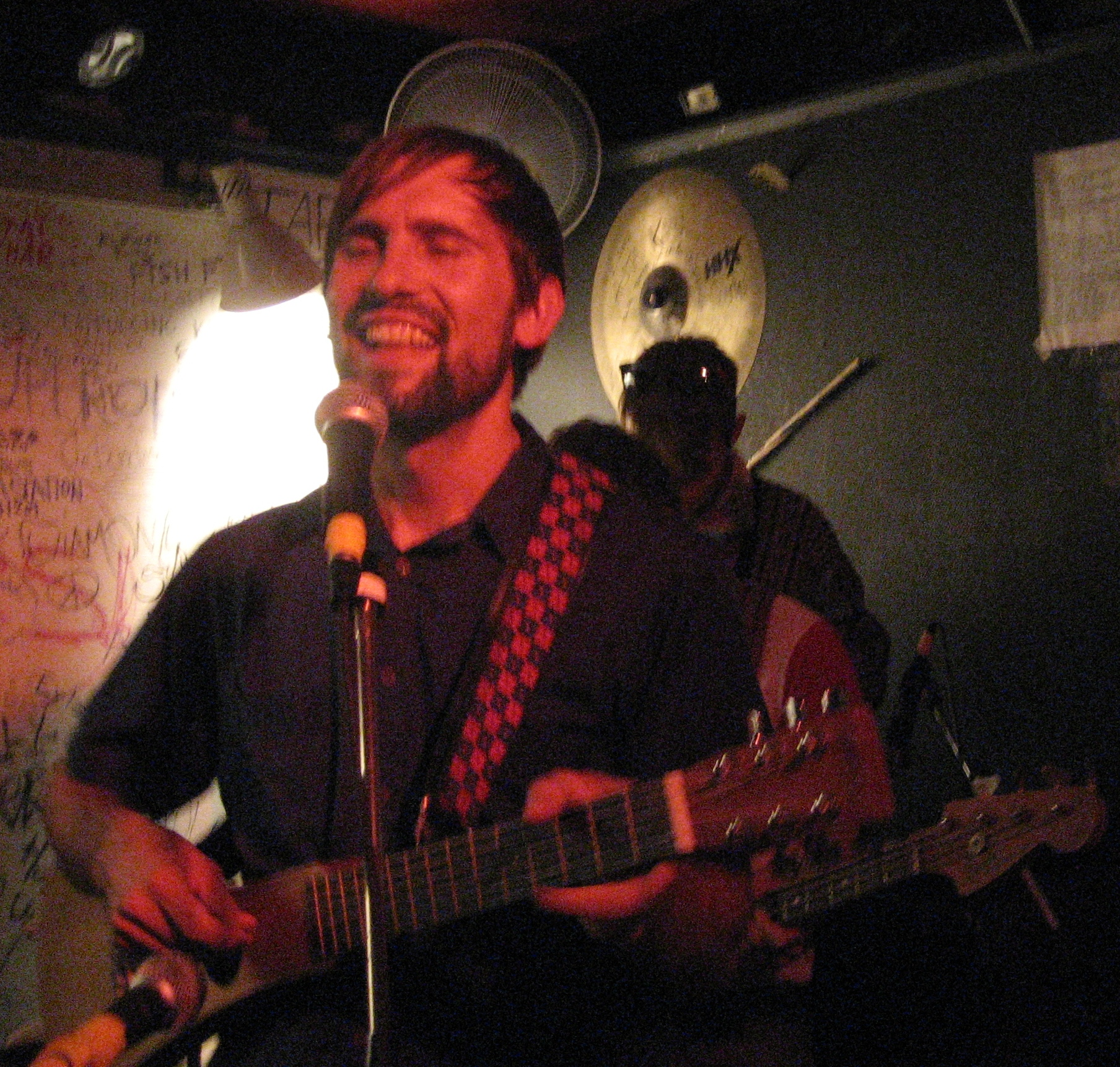 Half-Handed Cloud (John Ringhofer) live at Gula Villan, Haninge, Sweden.